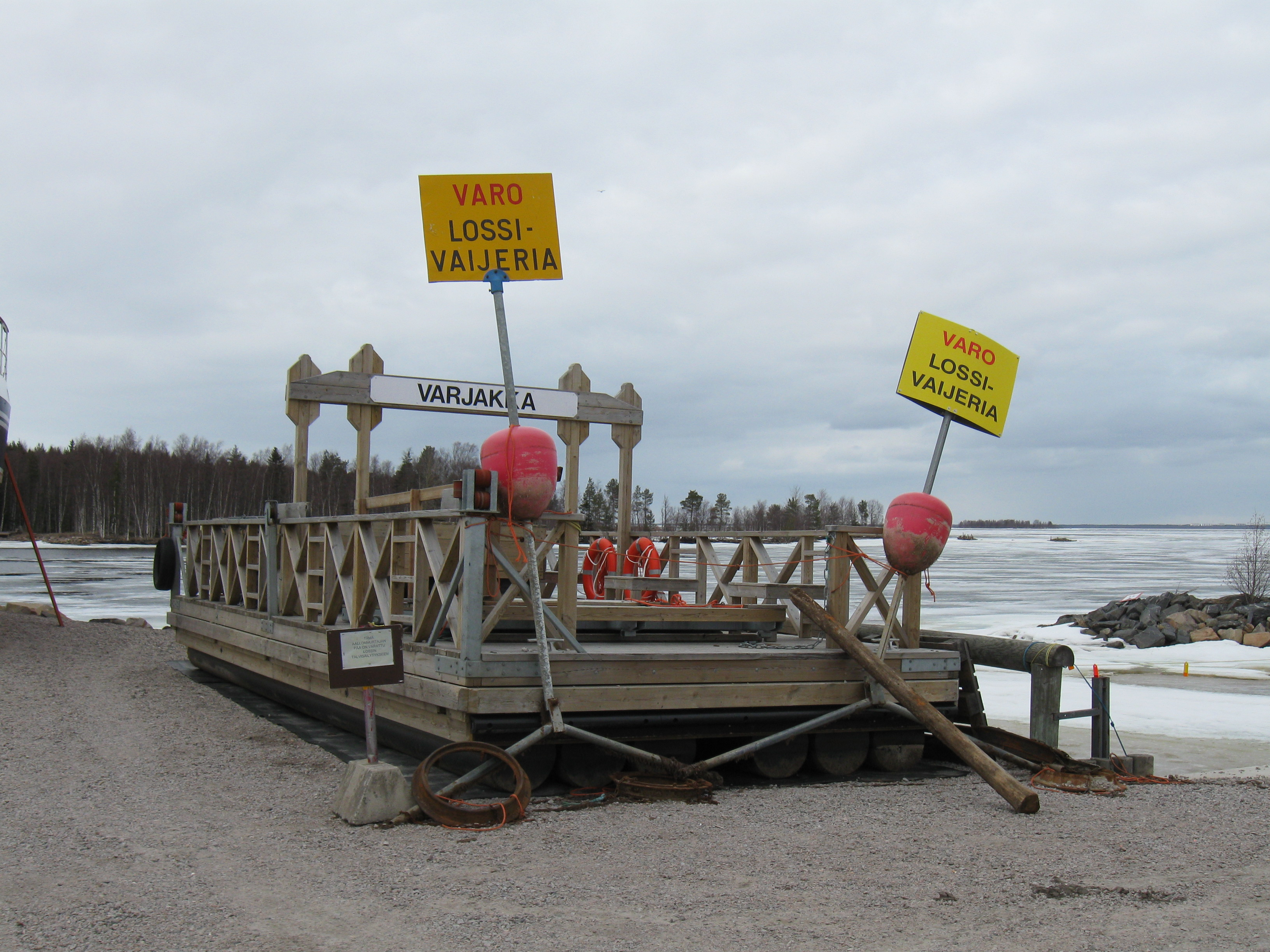 A small ferryboat at Varjakka in Oulunsalo, Finland.